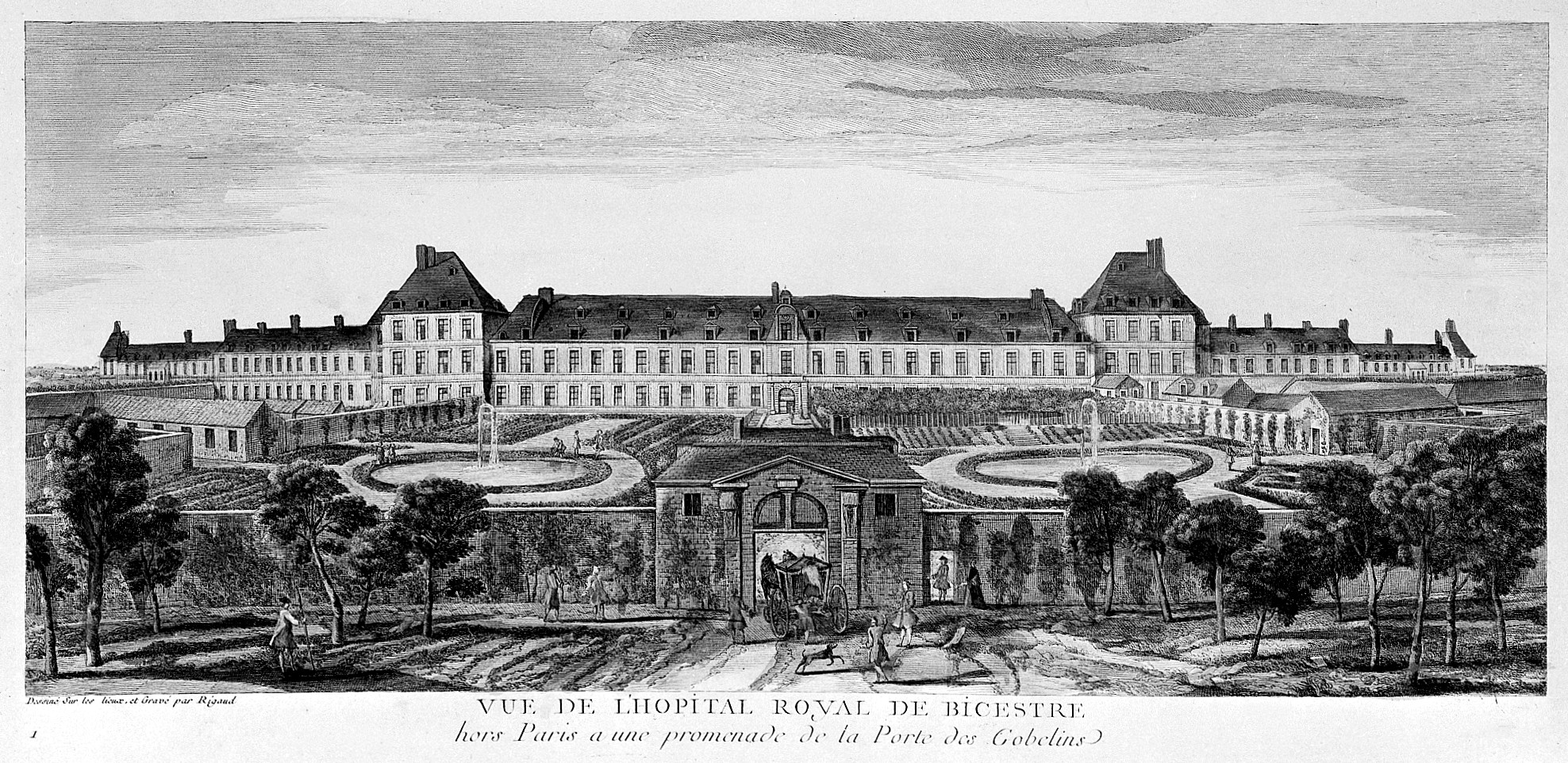 Hôpital Royal de Bicêtre, Paris: panoramic view with gardens. Coloured etching by J. Rigaud after himself. Iconographic Collections Keywords: Hopîtal Royal de Bicêtre (Paris, France); Jacques Rigaud